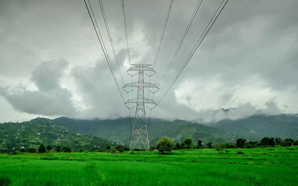 Nature, Scenery, Forests, Agriculture Between Shimla and Mandi Himachal Pradesh India